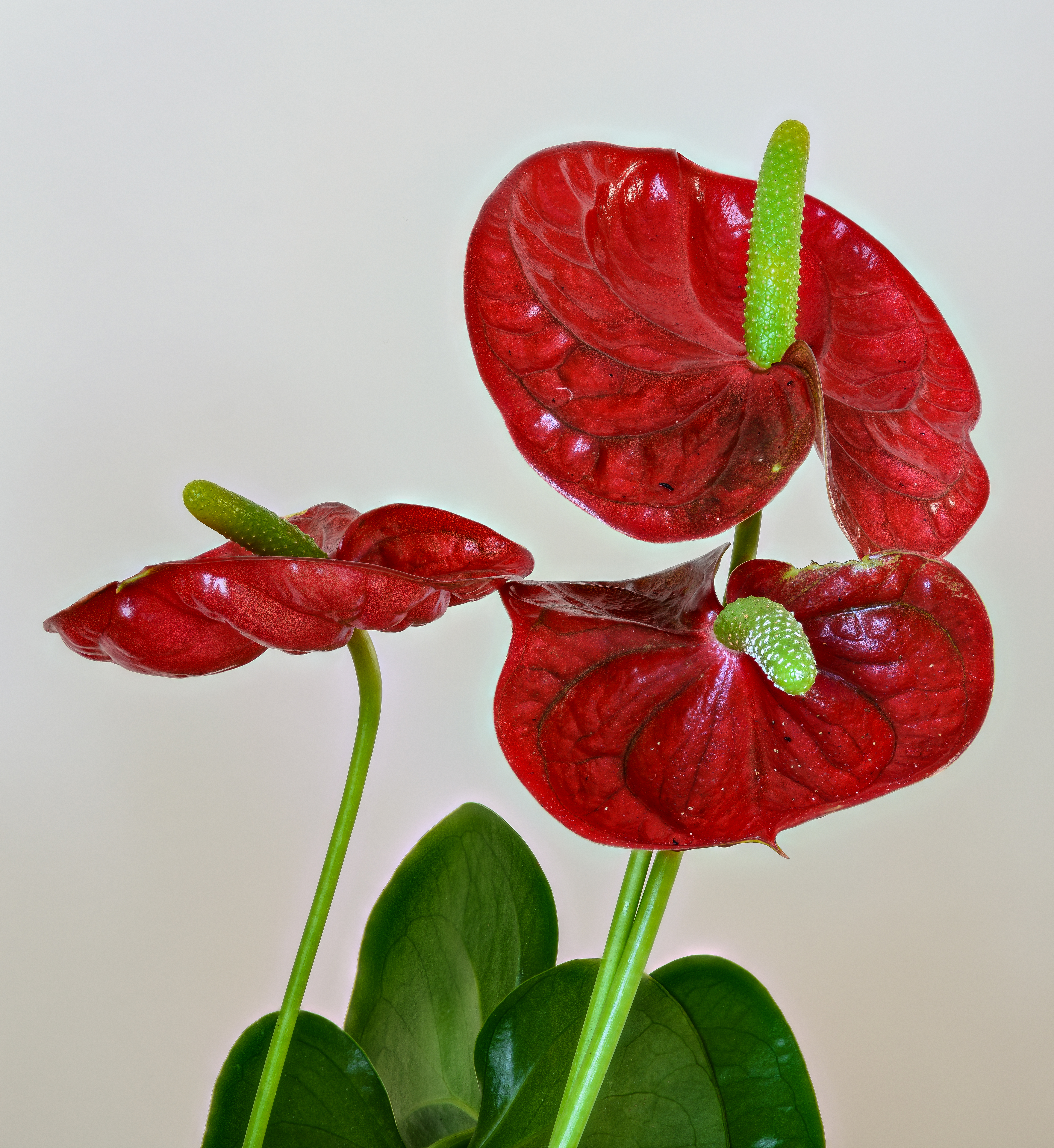 Anthurium sp.